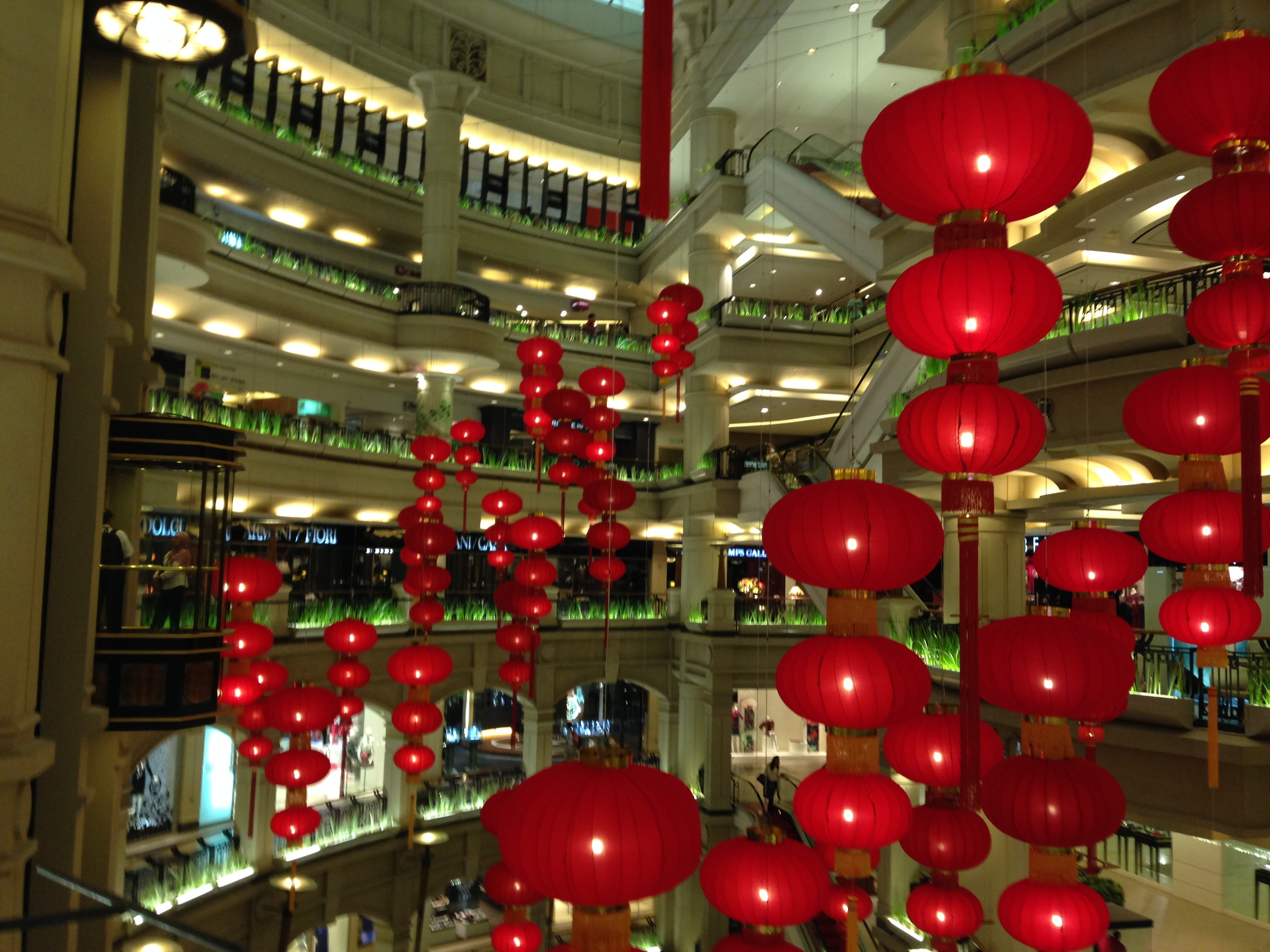 Starhill Gallery Chinese New Year Decoration